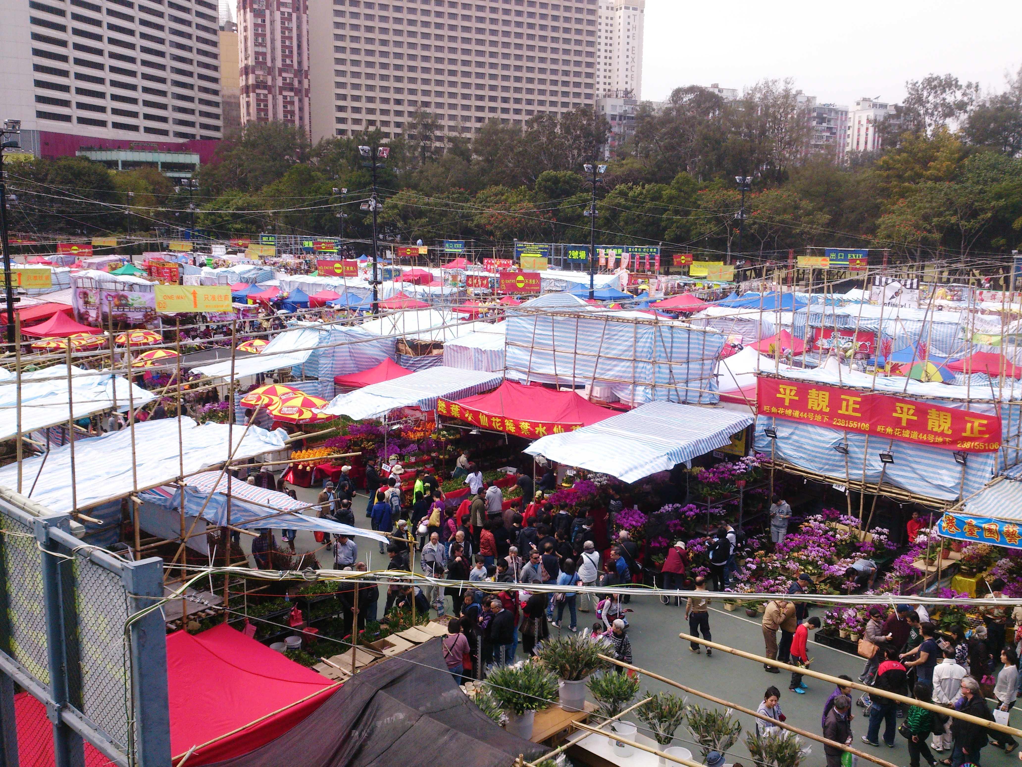 Booths in Victoria Park Lunar New Year Fair 2015